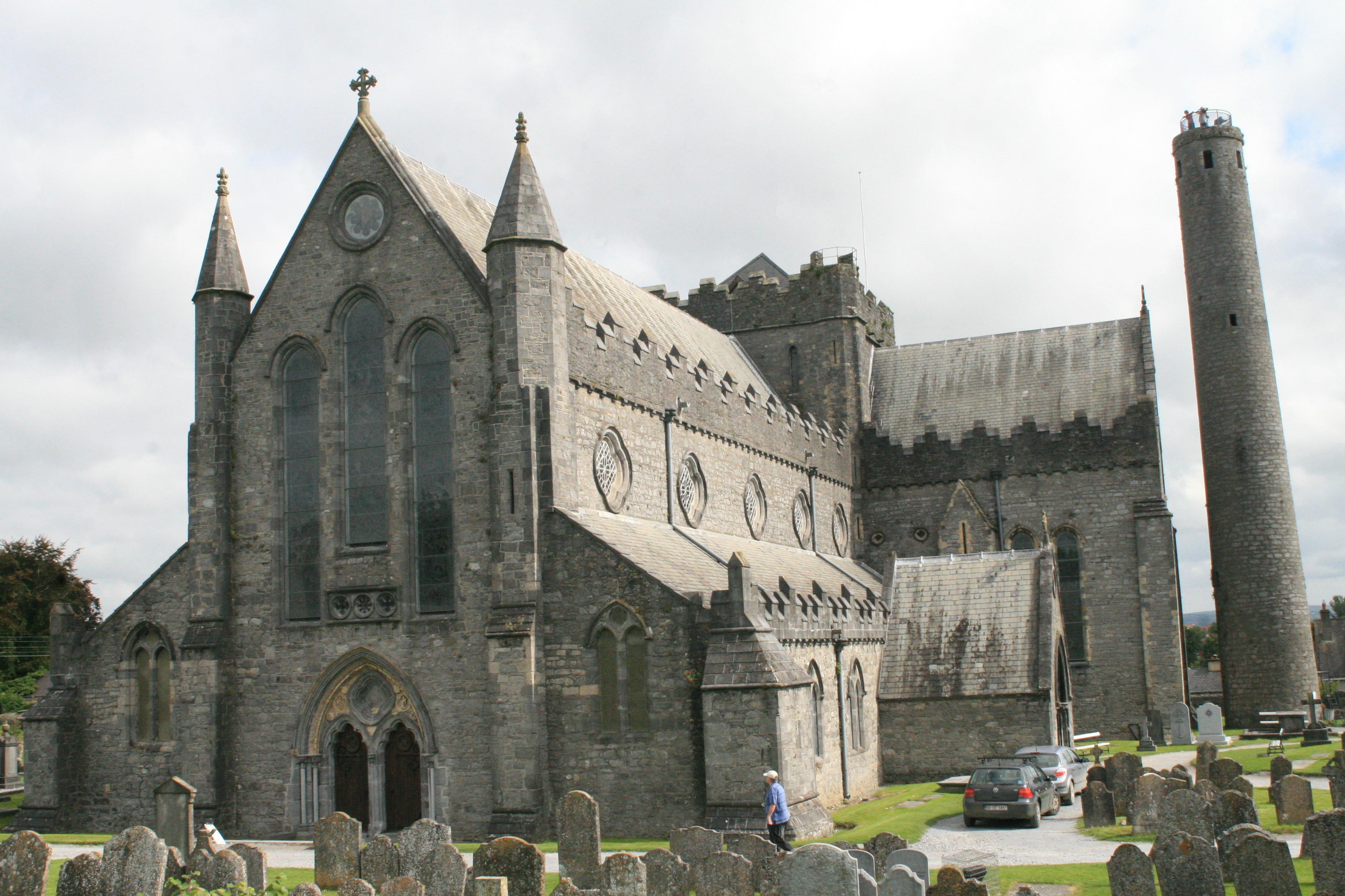 Kilkenny, County Kilkenny, Ireland St. Canice's Cathedral, as seen from southwest.